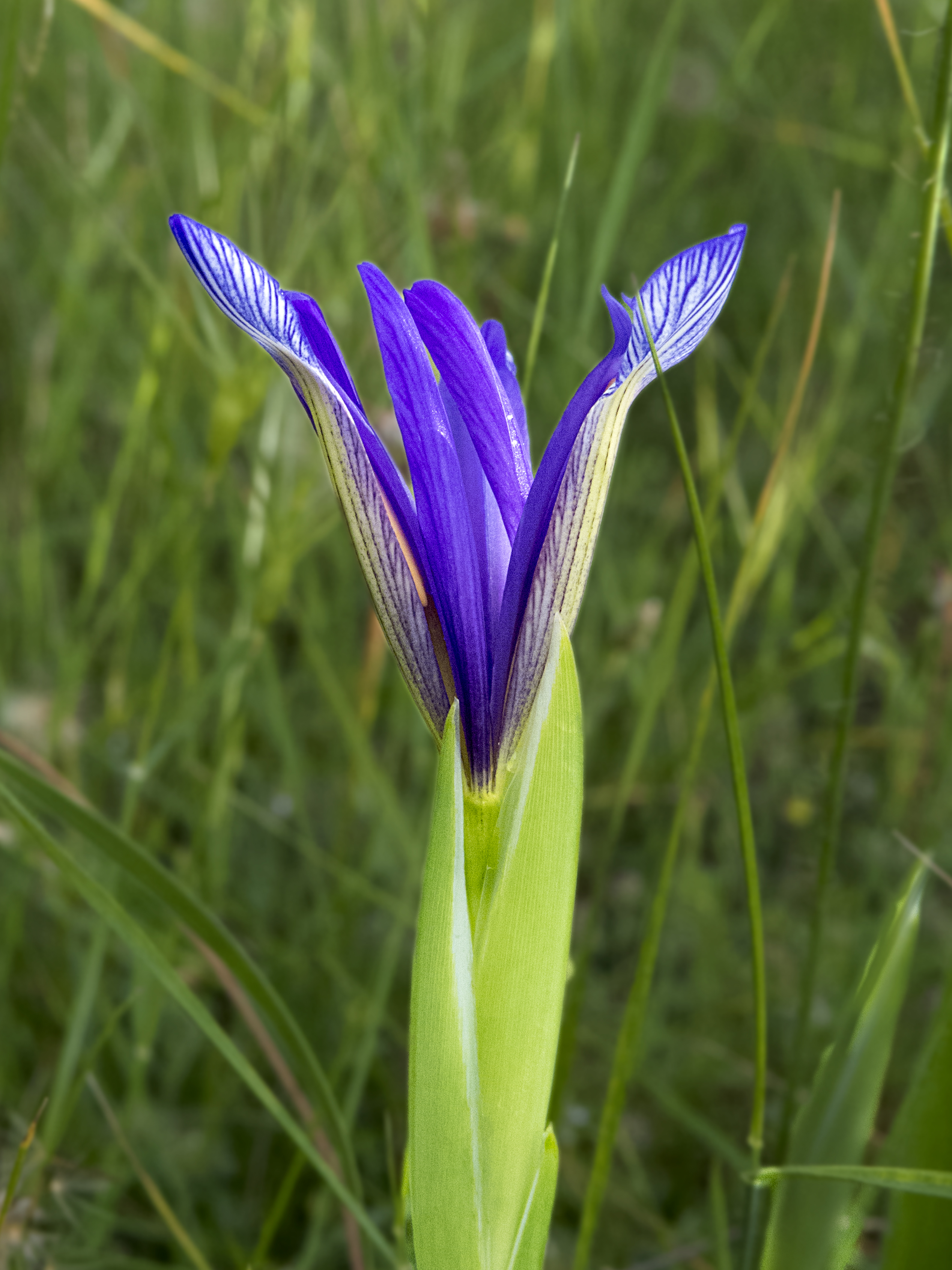 This is a photography of Natura 2000 protected area with ID GR1340005